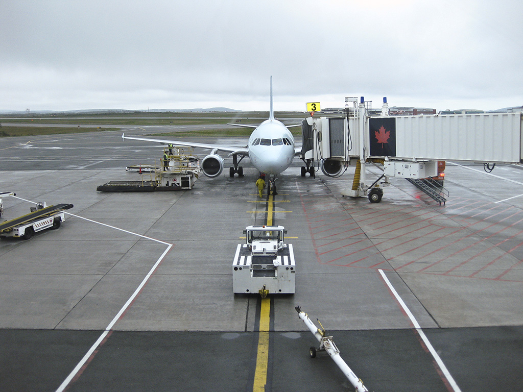 St. John's Airport, Newfoundland.